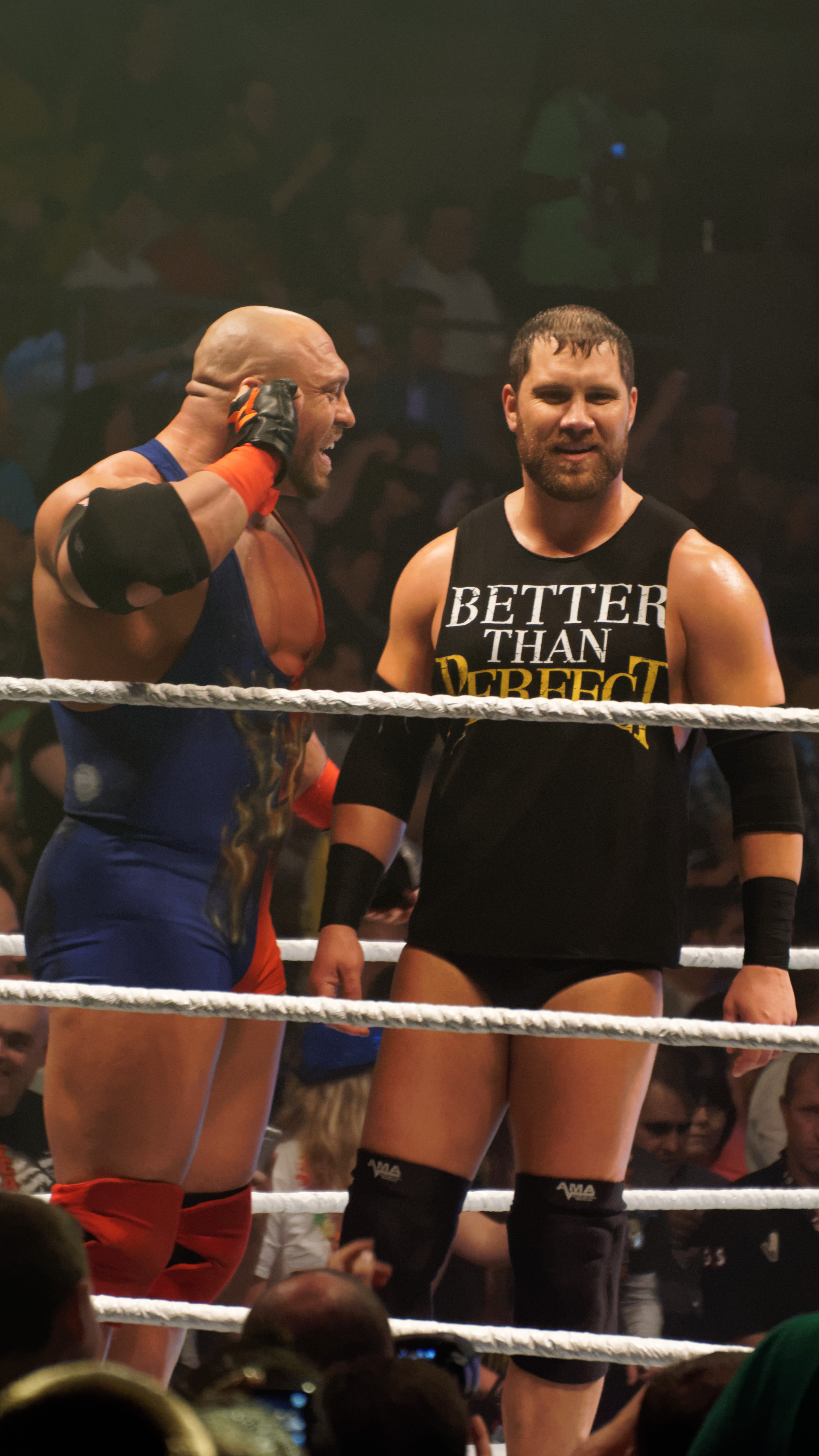 Rybazxel (Ryback, left, and Curtis Axel, right) at a WWE show in May 2014.